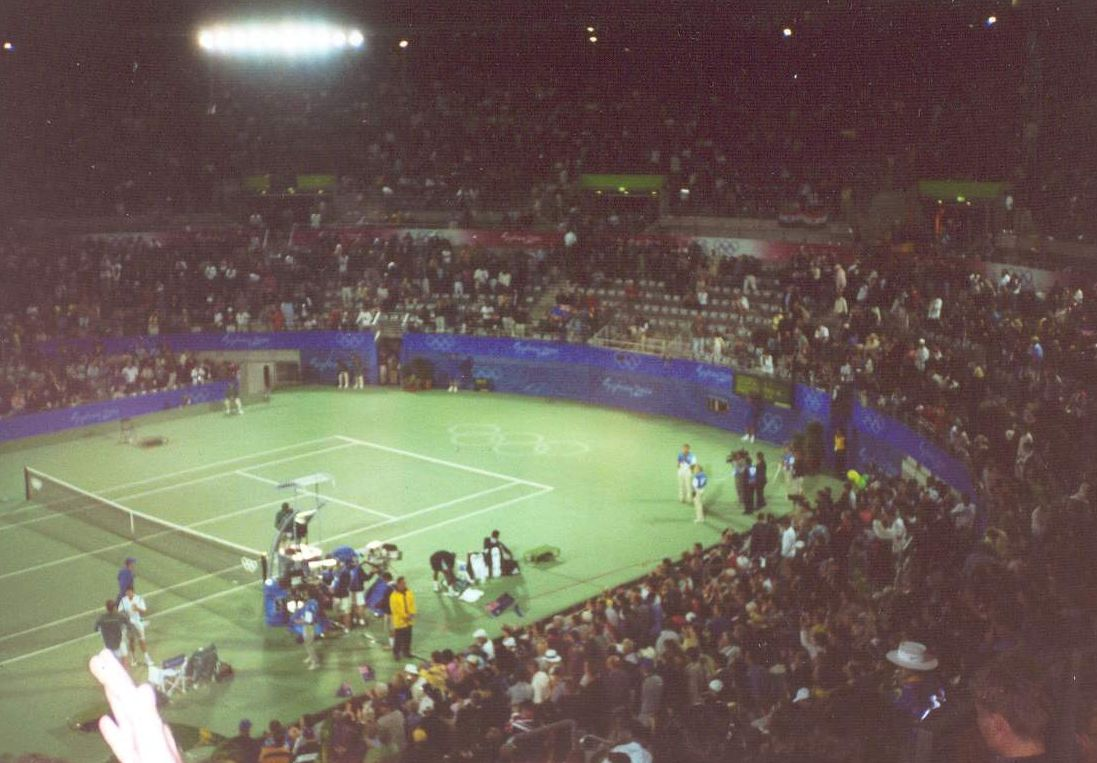 Game of Tennis at the Sydney 2000 olympics. I took the photo.